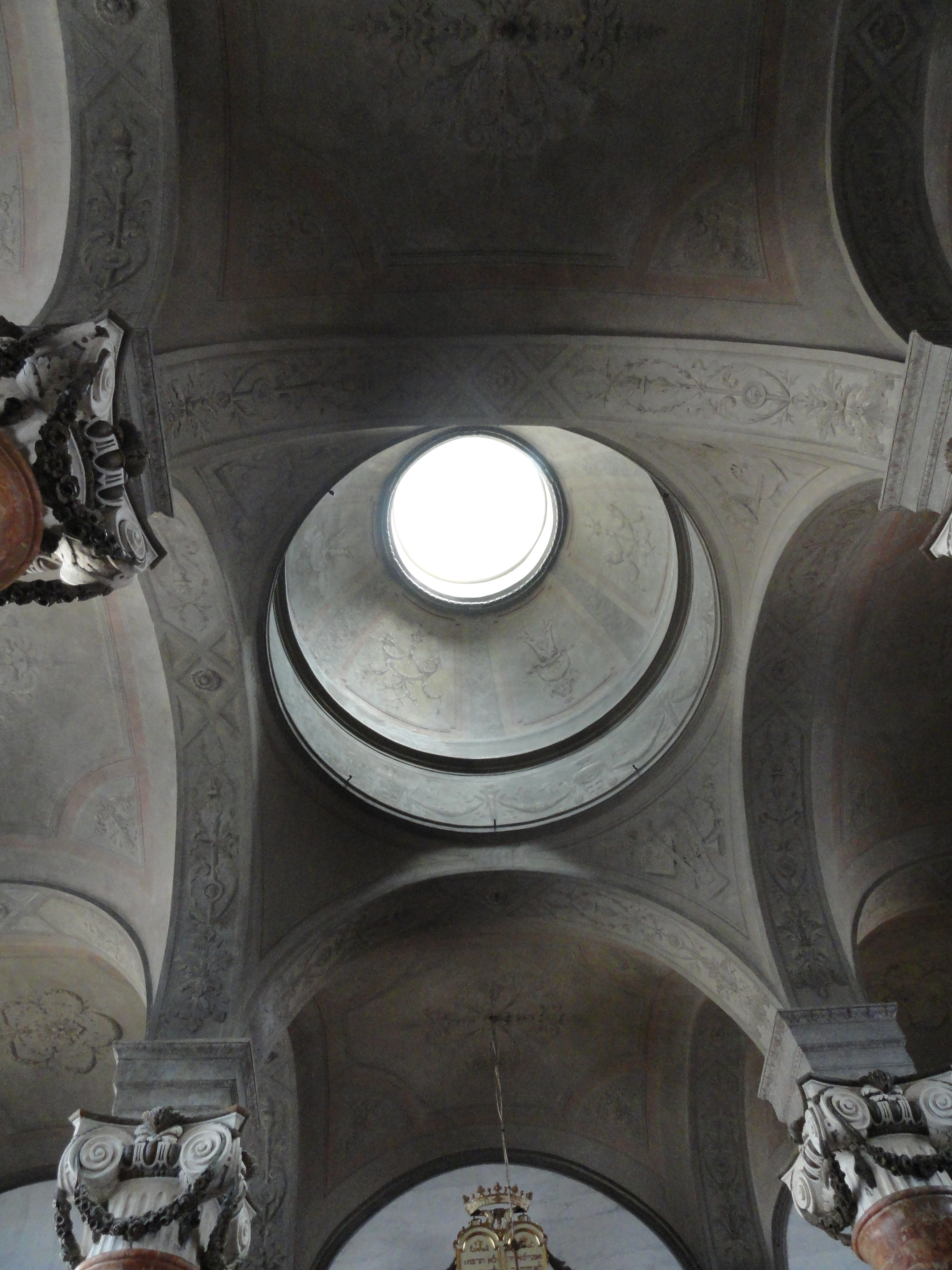 Synagogue of Asti (Piemonte - Italy) View of the dome from inside